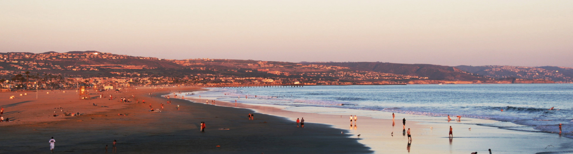 Panorama of Newport Beach from the Balboa Peninsula, Balboa Pier and Crystal Cove State Park to Laguna Beach, California.